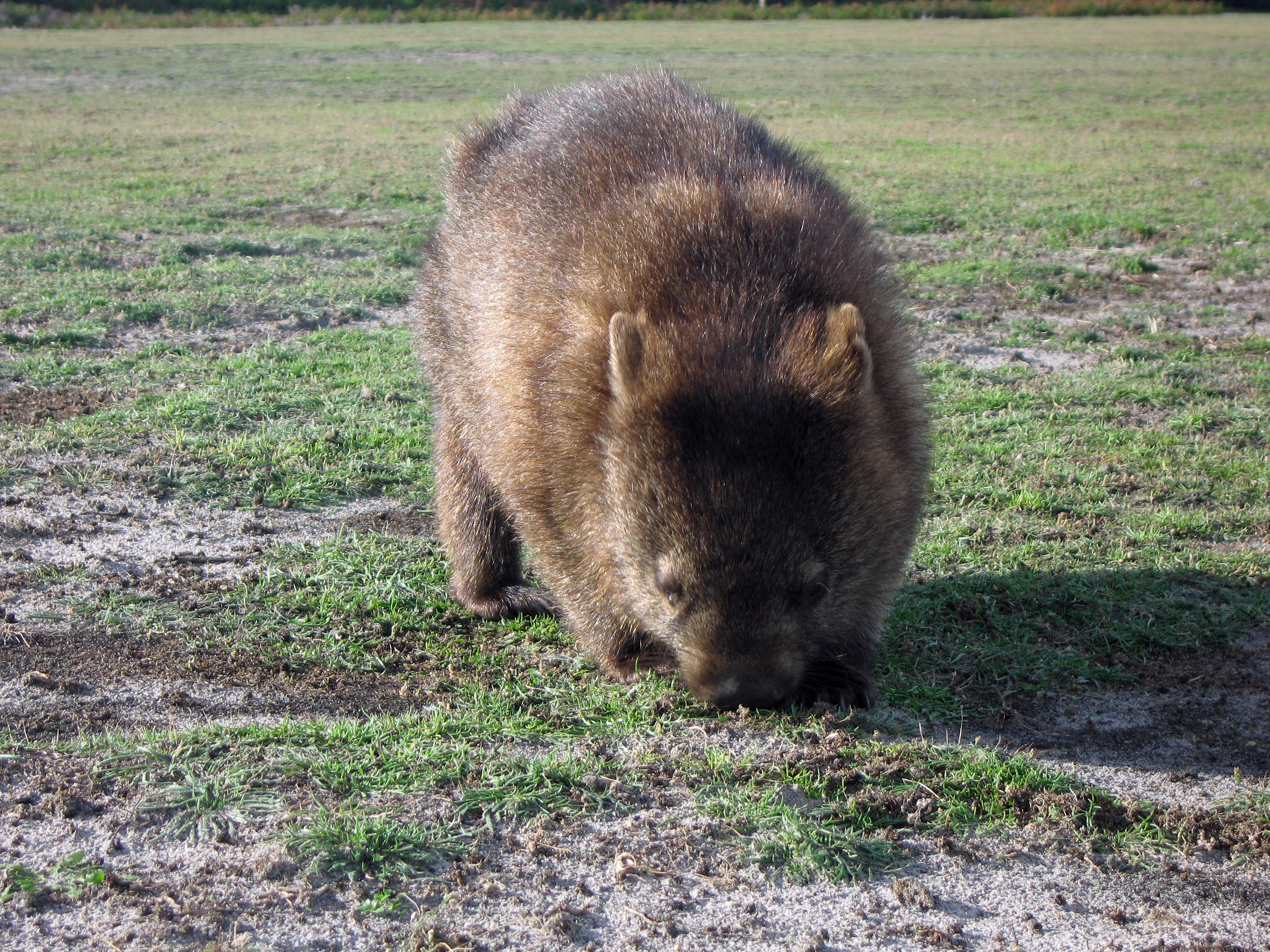 A Common Wombat (Vombatus ursinus) in Narawntapu National Park, Tasmania, Australia.